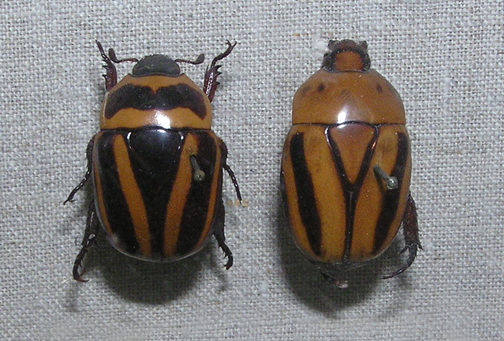 Macraspis cincta. Saint Petersburg Museum of Zoology, Russia.